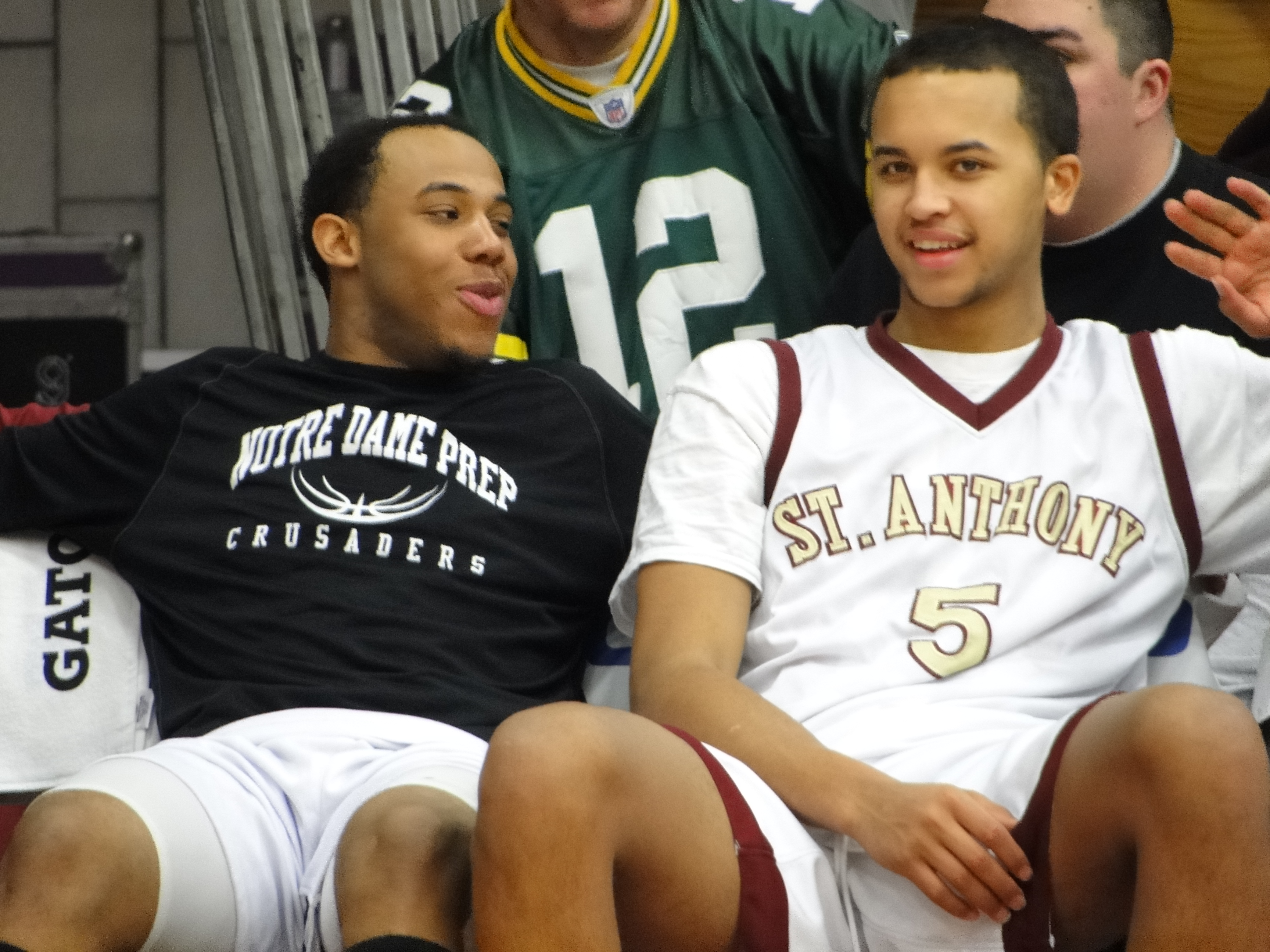 Kyle Anderson (right) with St. Anthony High School